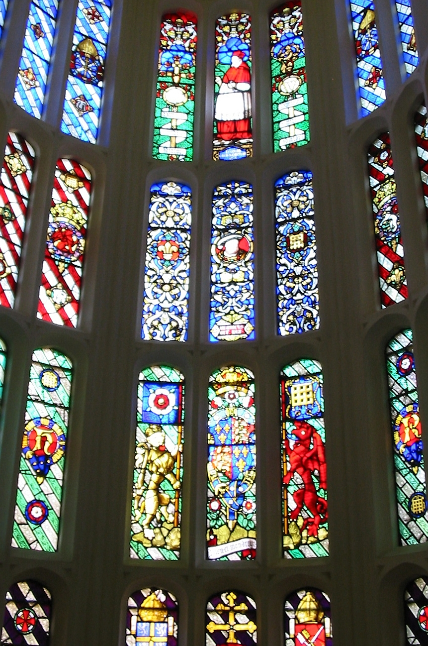 Hampton Court, London